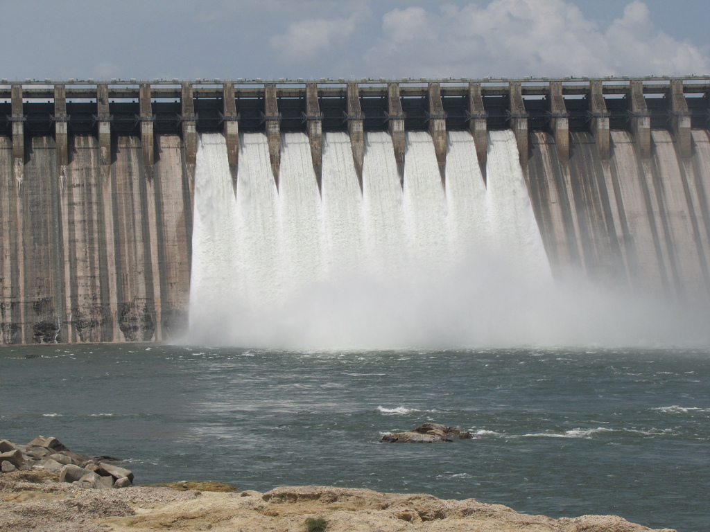 Nagarjuna Sagar Dam Gates view, Andhra Pradesh, India